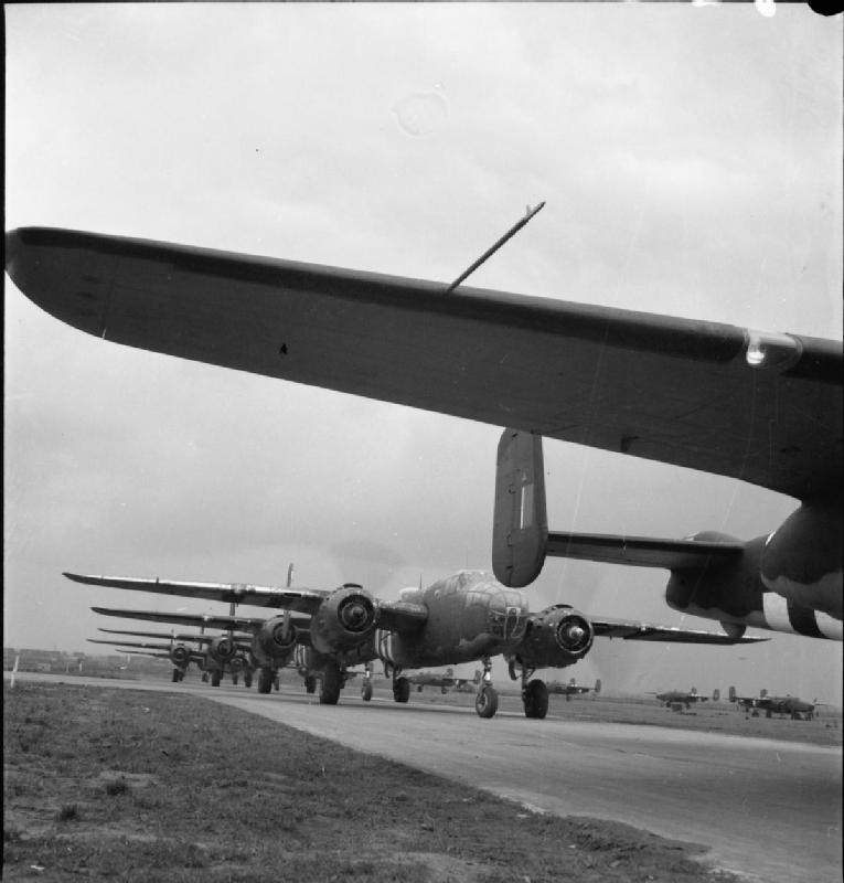 Royal Air Force- 2nd Tactical Air Force, 1943-1945. North American Mitchell Mark IIs of No. 180 Squadron RAF taxy along the perimter track at B58/Melsbroek, Belgium, before taking off for a daylight attack on the bridge at Venlo, Holland.